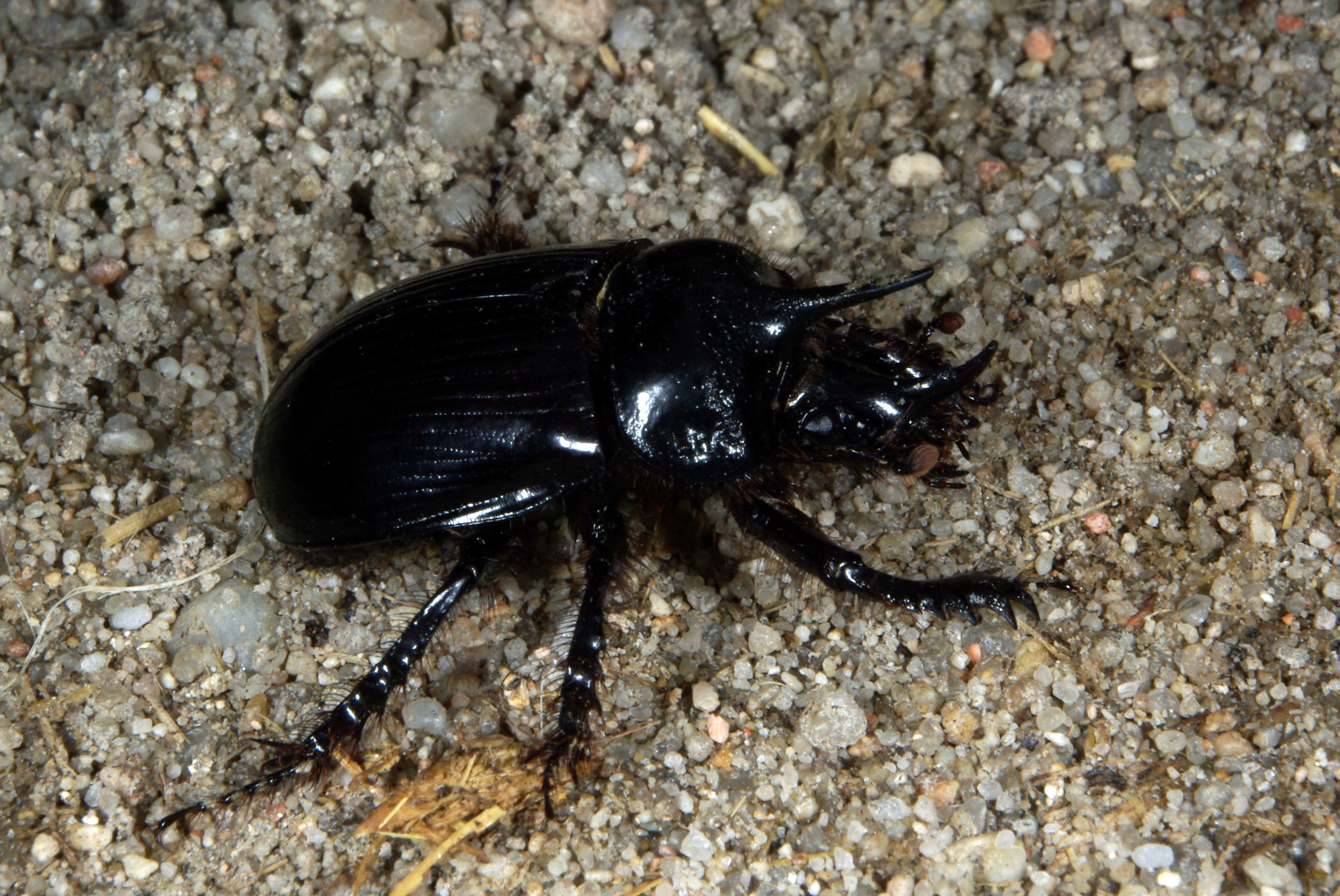 Ceratophyus hoffmannseggi in Olmedo, (Valladolid, Spain).